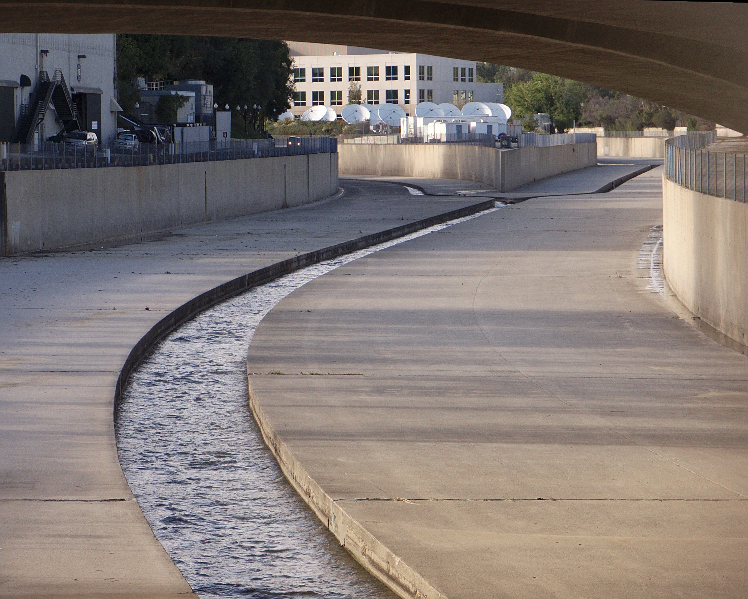 The Los Angeles River receiving the Tujunga Wash (right) near Colfax Ave. in Studio City, California. View is to the west.